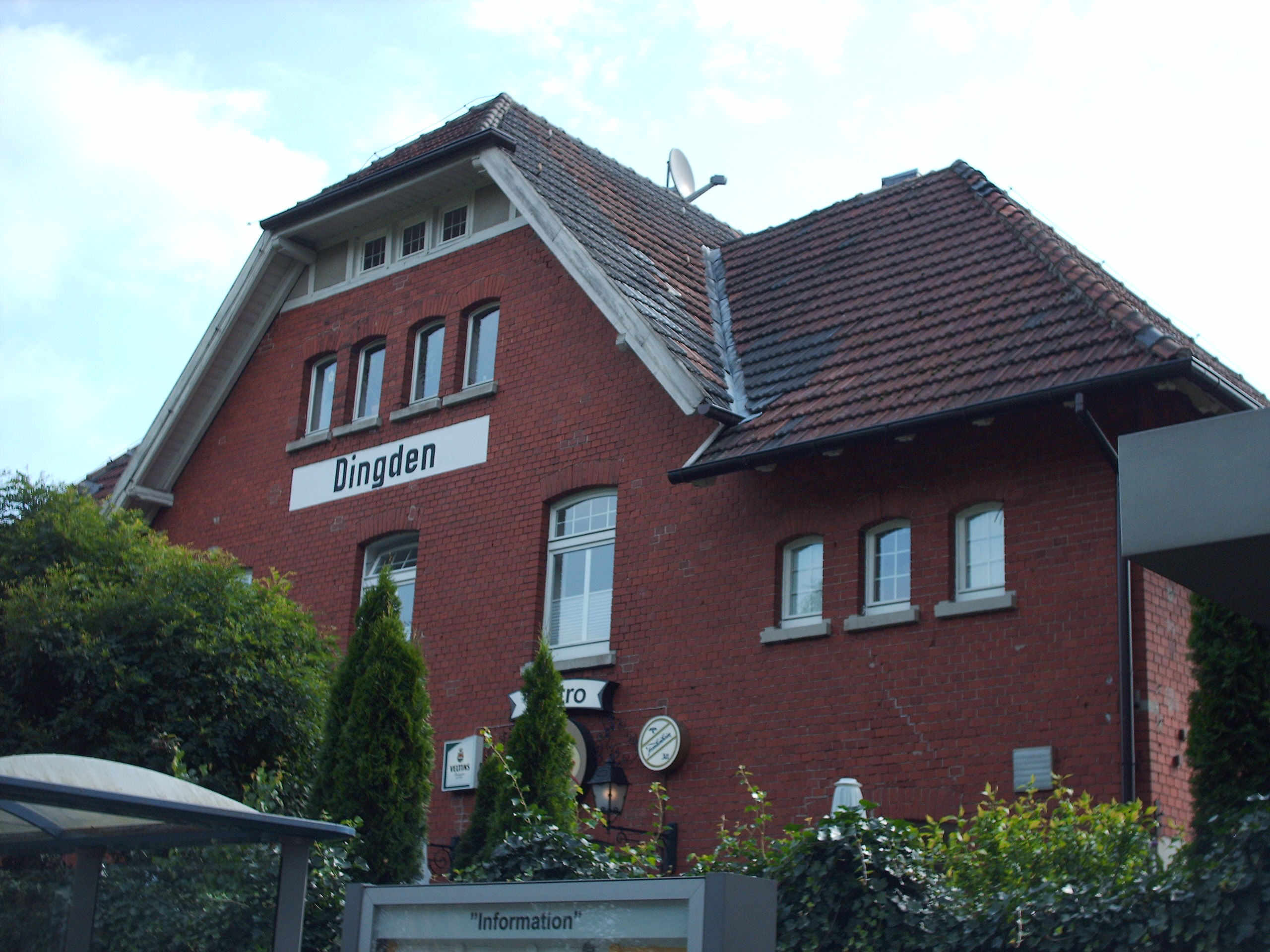 Dingden station, Hamminkeln, Germany check usage